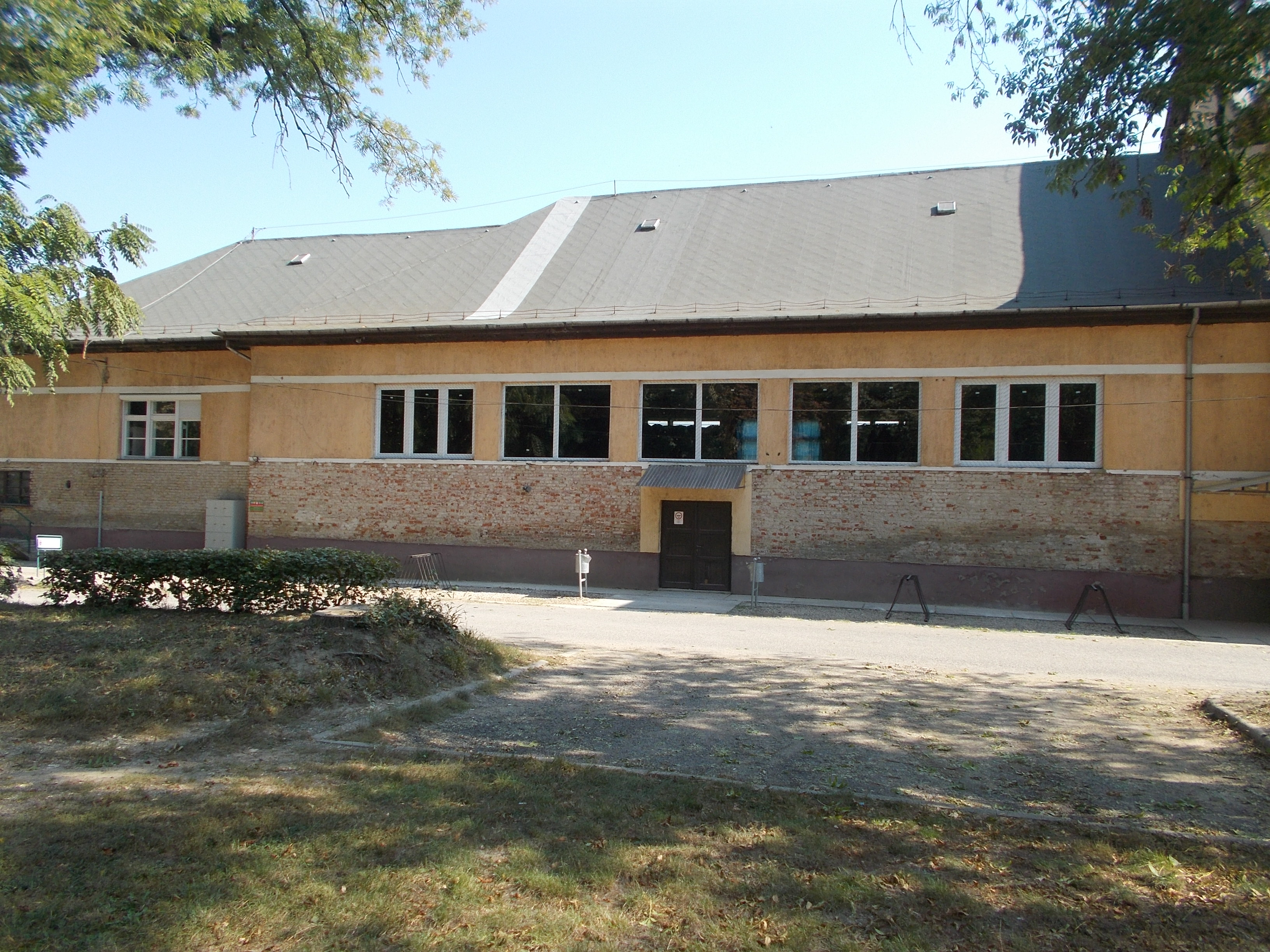 Szuhay Sports Center, north (older) sports hall. - Dombóvár, Tolna County, Hungary.